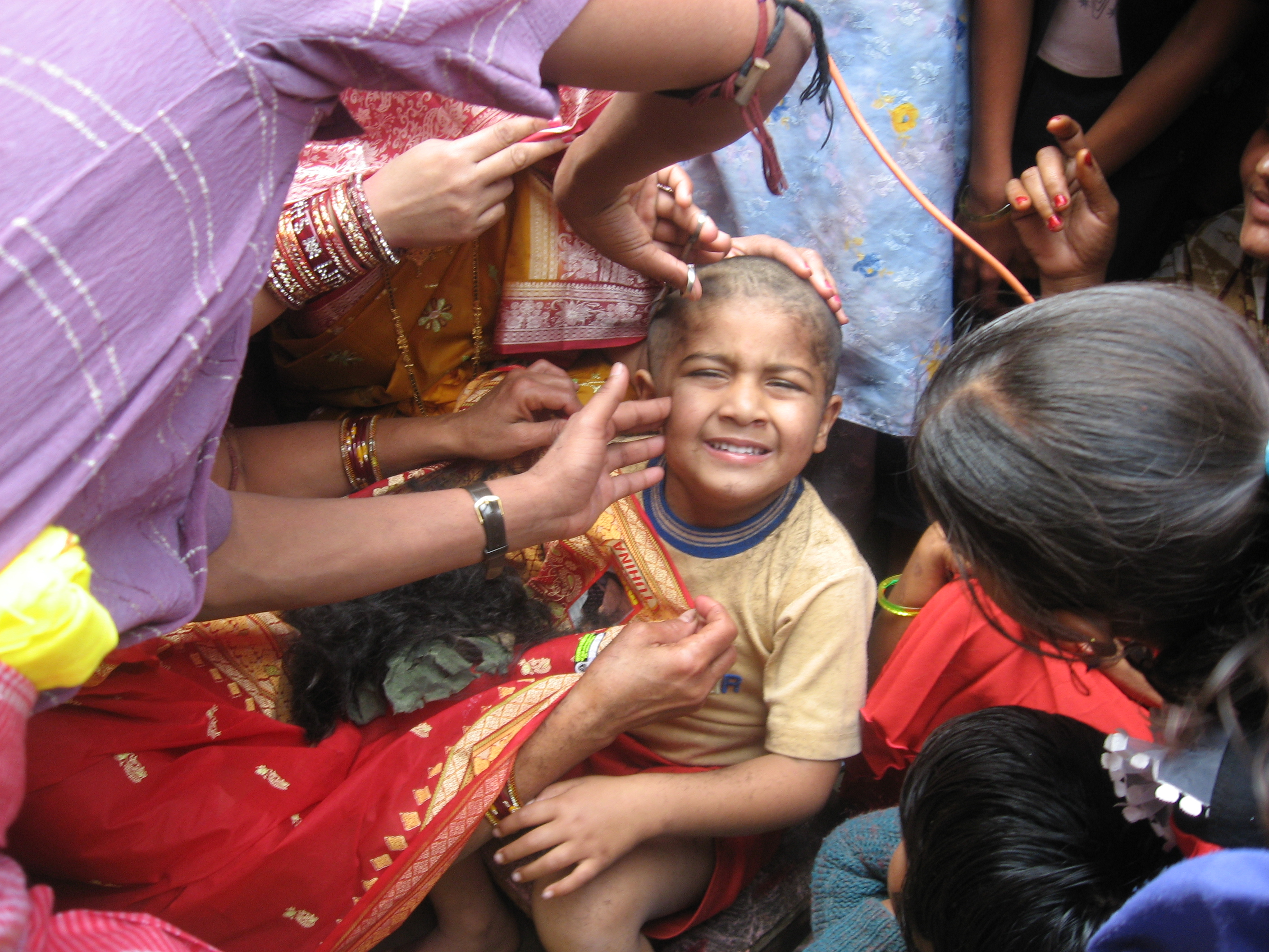 Mundan is a very popular Hindu-tradition in Mithila, a Samskara or Sanskar (consecration). In mundan, the shaving of child's hair is done for the first time in his life. This is accompanied with a celebration.